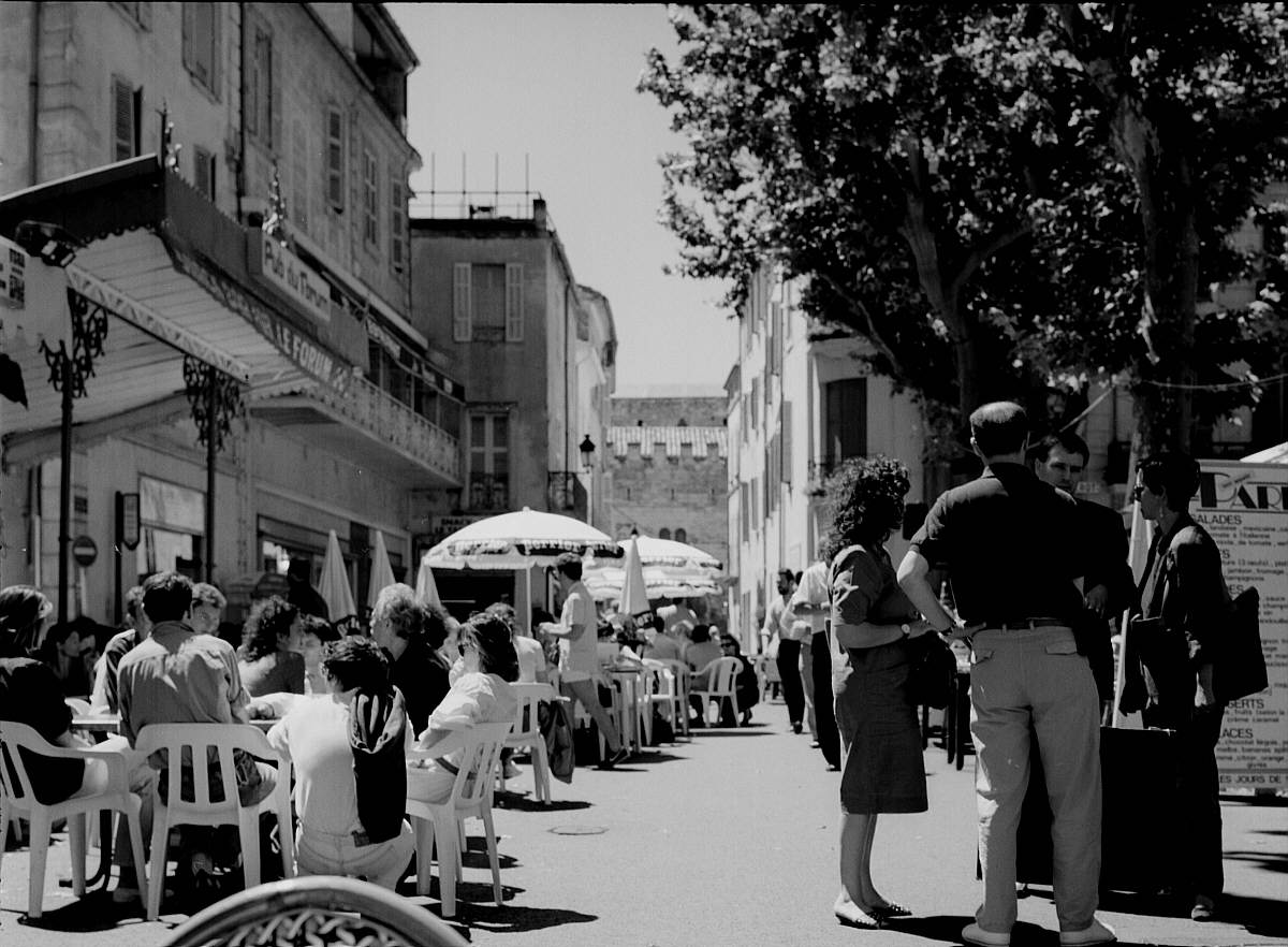 Arles, France, Place du Forum: In the background left a shop is visible. This was changed to a restaurant and decorated in the 1990's to look exactly like the one on van Gogh's painting. This picture from 1990 allow to see that the space for the street cafes is growing.